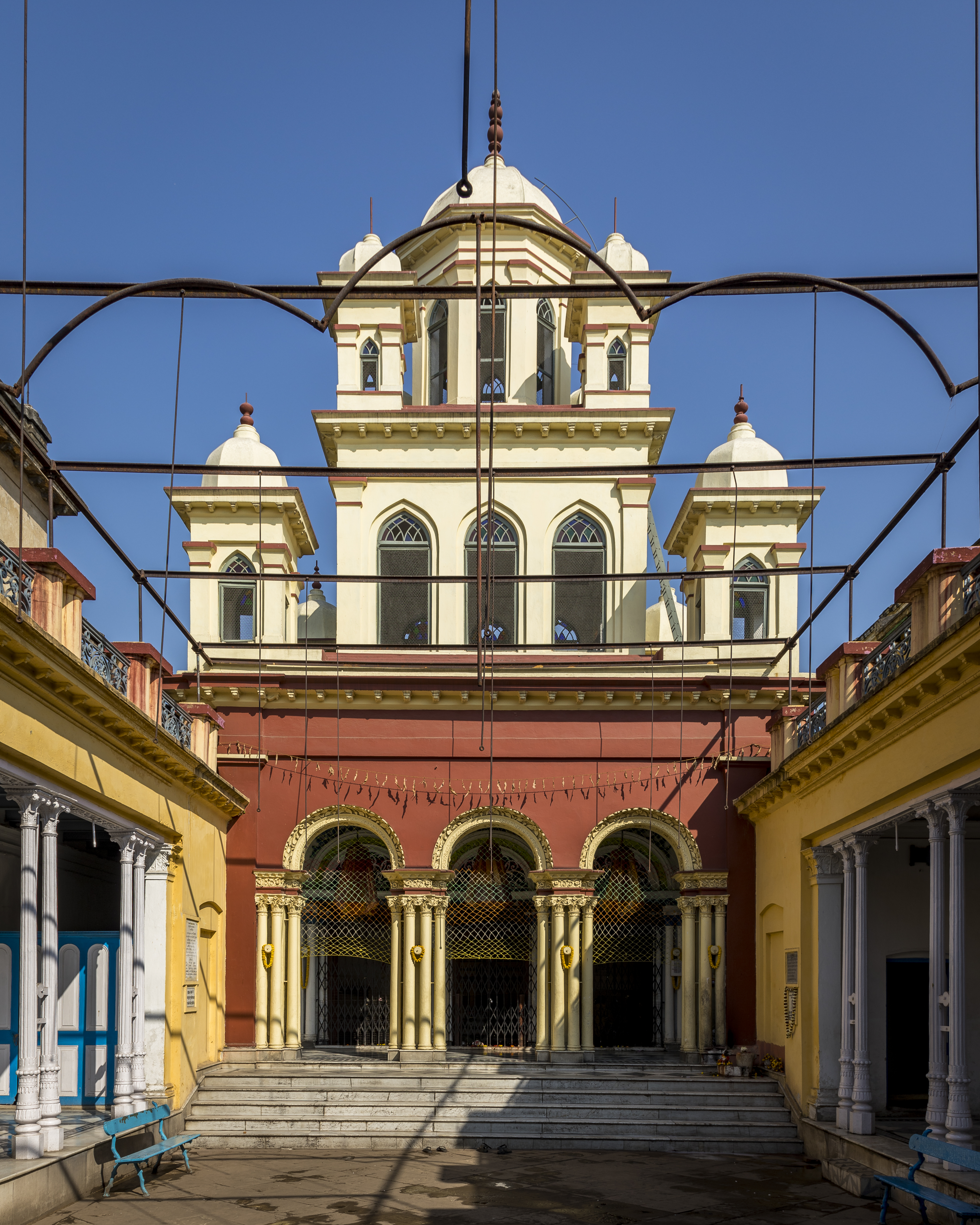 Courtyard of the Kalibari established by industrialist Bamondas Mookerjee in 1904